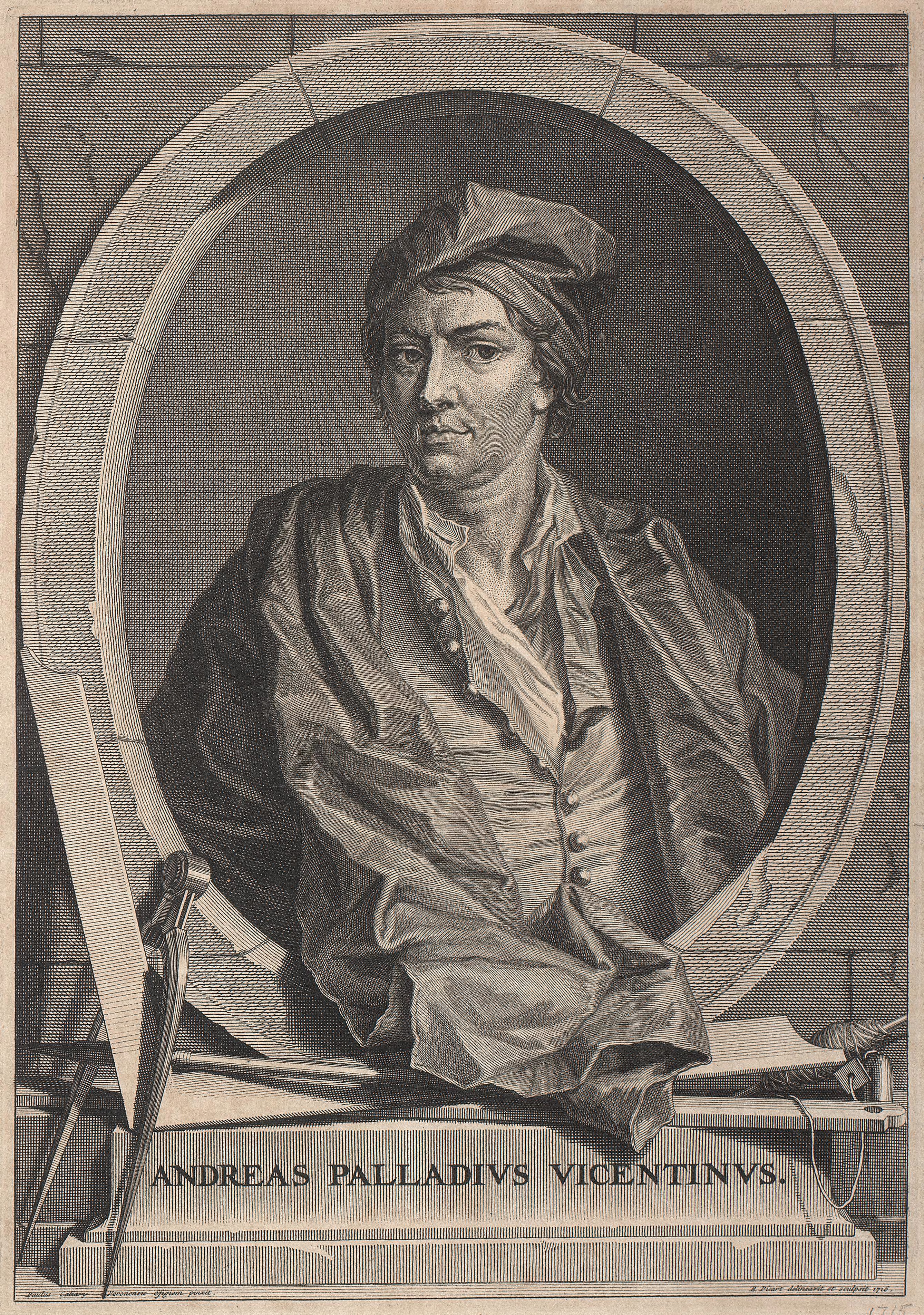 Frontispiece of The Architecture of A. Palladio, first edition (1715) of Giacomo Leoni's translation of Andrea Palladio's Quattro libri dell'architettura (1570), published in London (caption at source: "Portrait of Palladio from the Leoni edition, 1715"); this was the first translation of Palladio's work into English. An inscription in Latin in the lower left corner (Paulus Caliary Veronensis Efigiem pinxit) indicates that the engraving is based on a portrait painting by Veronese. According to Nash (1999, pp. 1347–1349), the painting is a fake. Rudolf Wittkower has shown that it is not by Veronese nor does it depict Palladio (Wittkower 1974, p. 82, cited by Nash). Instead it "is entirely the invention of Sebastiano Ricci." (Nash, p. 1349)